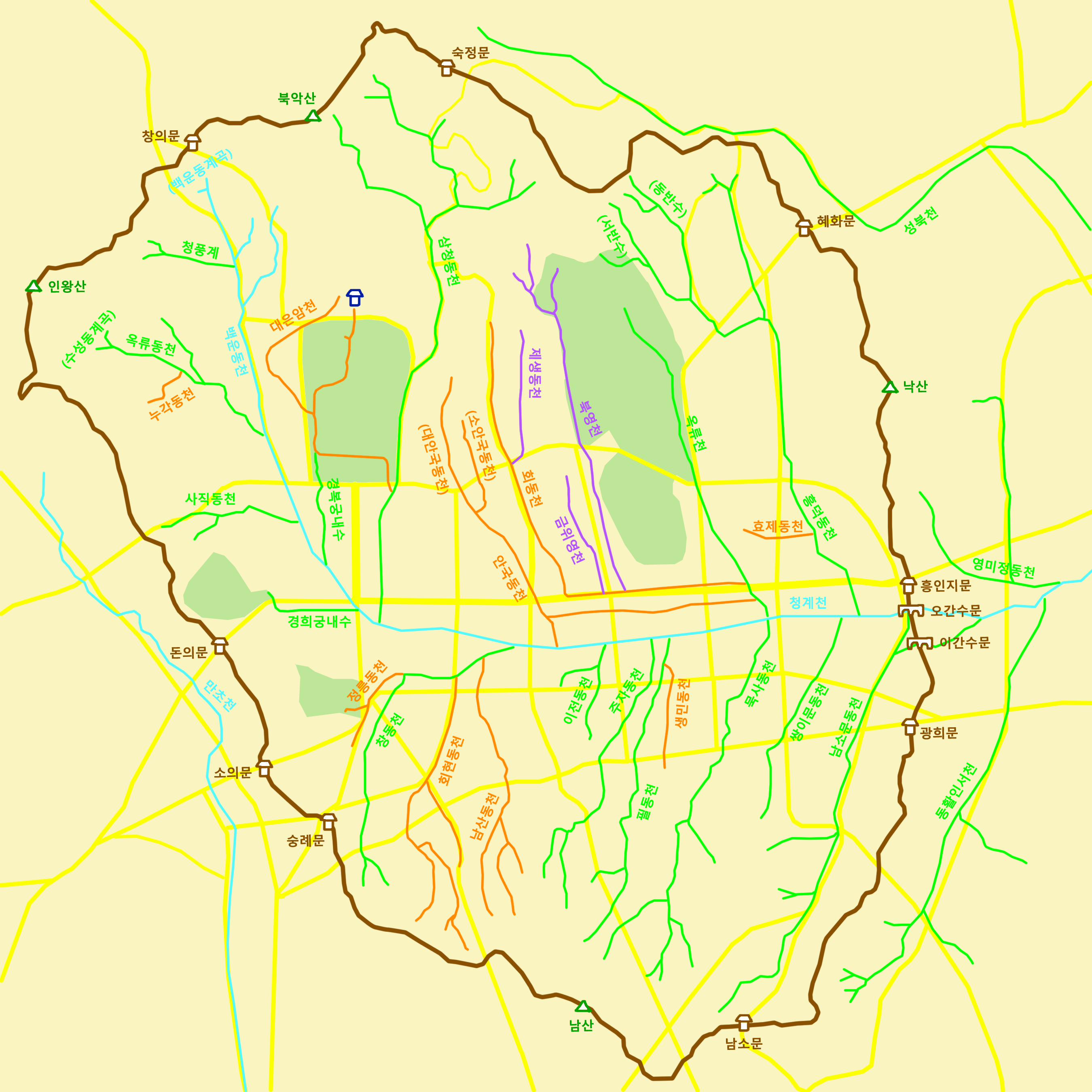 Map of Cheonggyecheon with Seoul City Wall